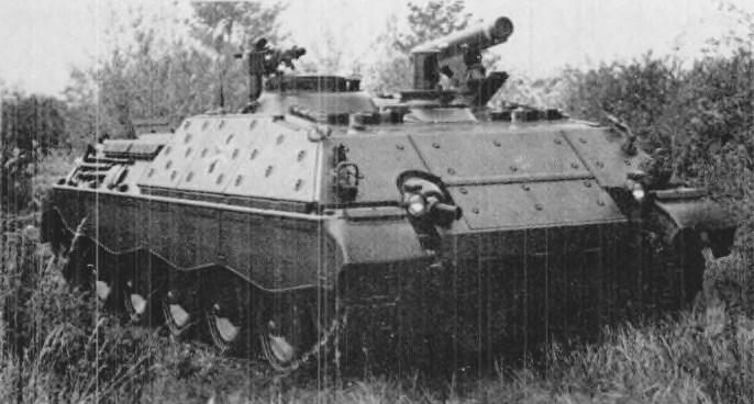 HOT missile installed on Jaguar 1